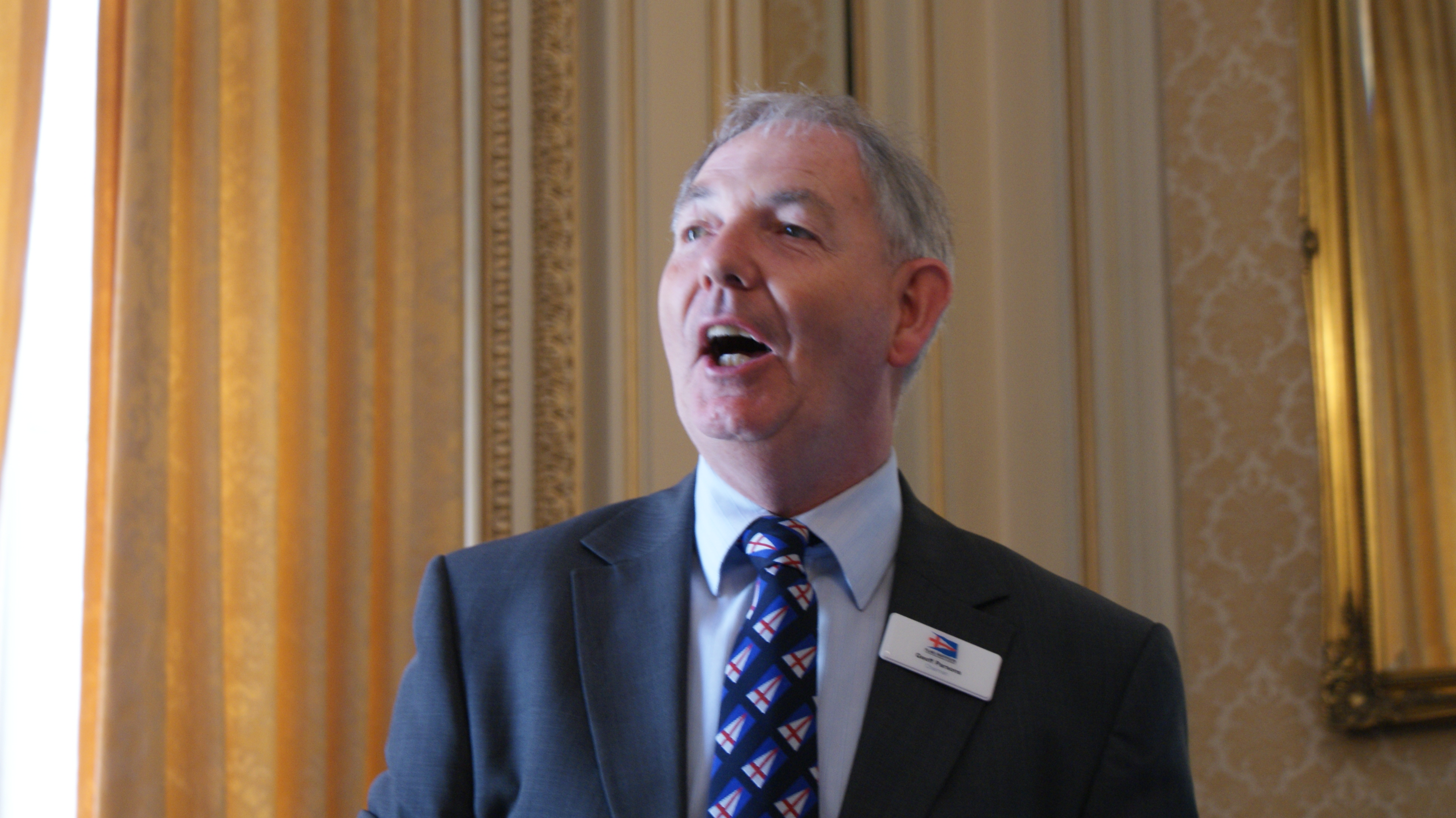 Geoff Parsons. Chairman and Trustee of the Flag Institute